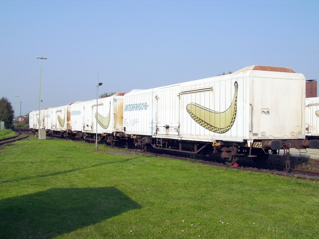 A refrigerator car of Interfrigo for the transportation of bananas